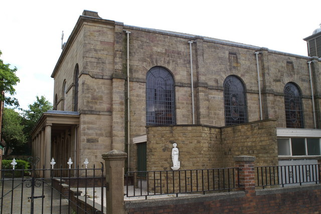 St John's RC Church, Wigan Sitting over the road from St George's CofE Church, it is a very near neighbour of St Mary's RC Church, and is run by the same clergy. Built by an 'Unknown Jesuit' in 1819.